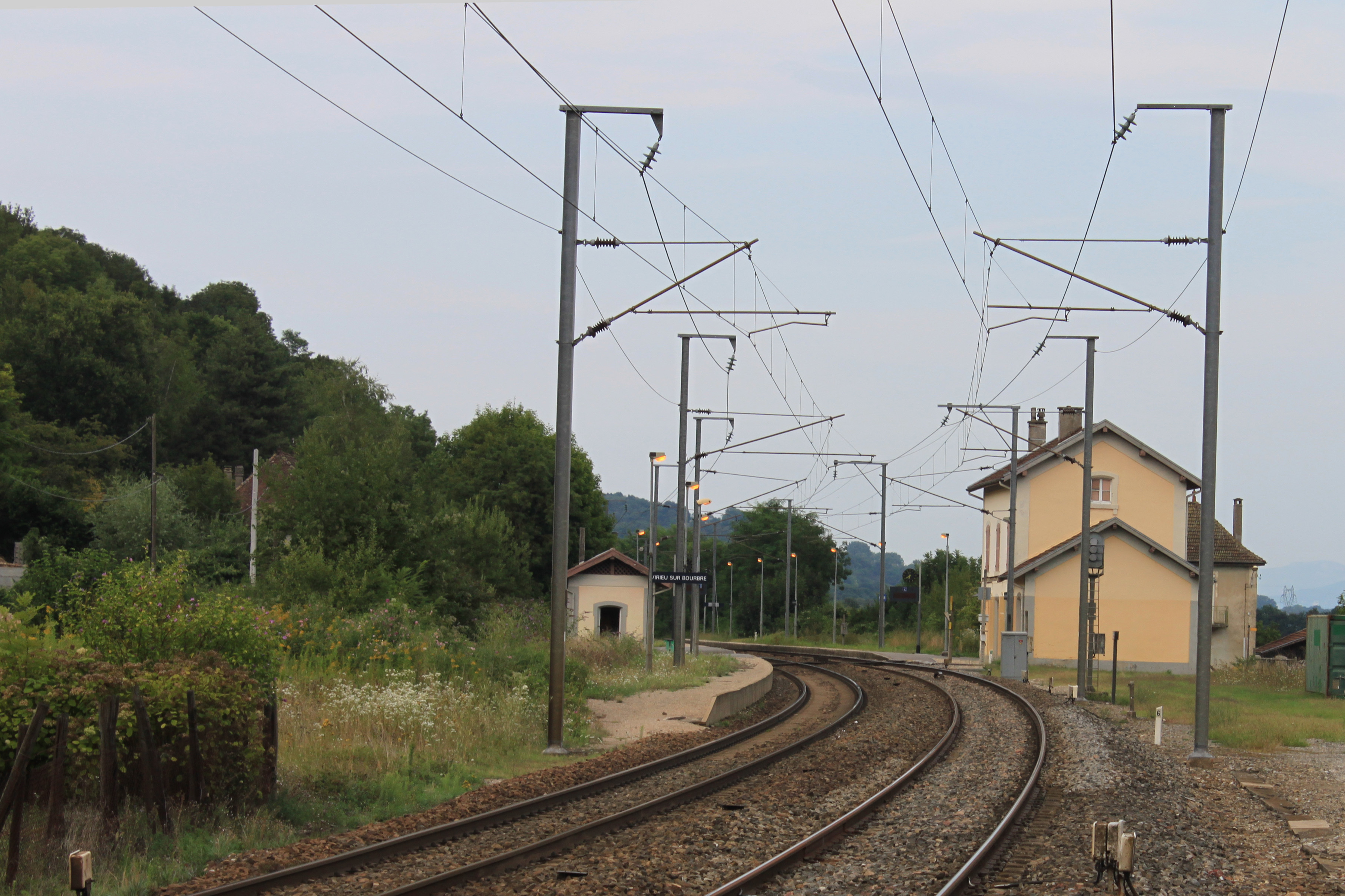 Virieu-sur-Bourbre train station